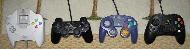 Four types of History_of_video_game_consoles_%28sixth_generation%29sixth generation Video game console game controllercontrollers. From left to right: Dreamcast PlayStation 2 DualShockDualShock 2 Nintendo GameCube Xbox Controller S